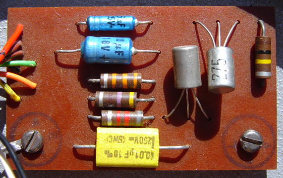 Arbiter Fuzz Face circuit board with NKT275 germanium transistors. Ca. 1967.